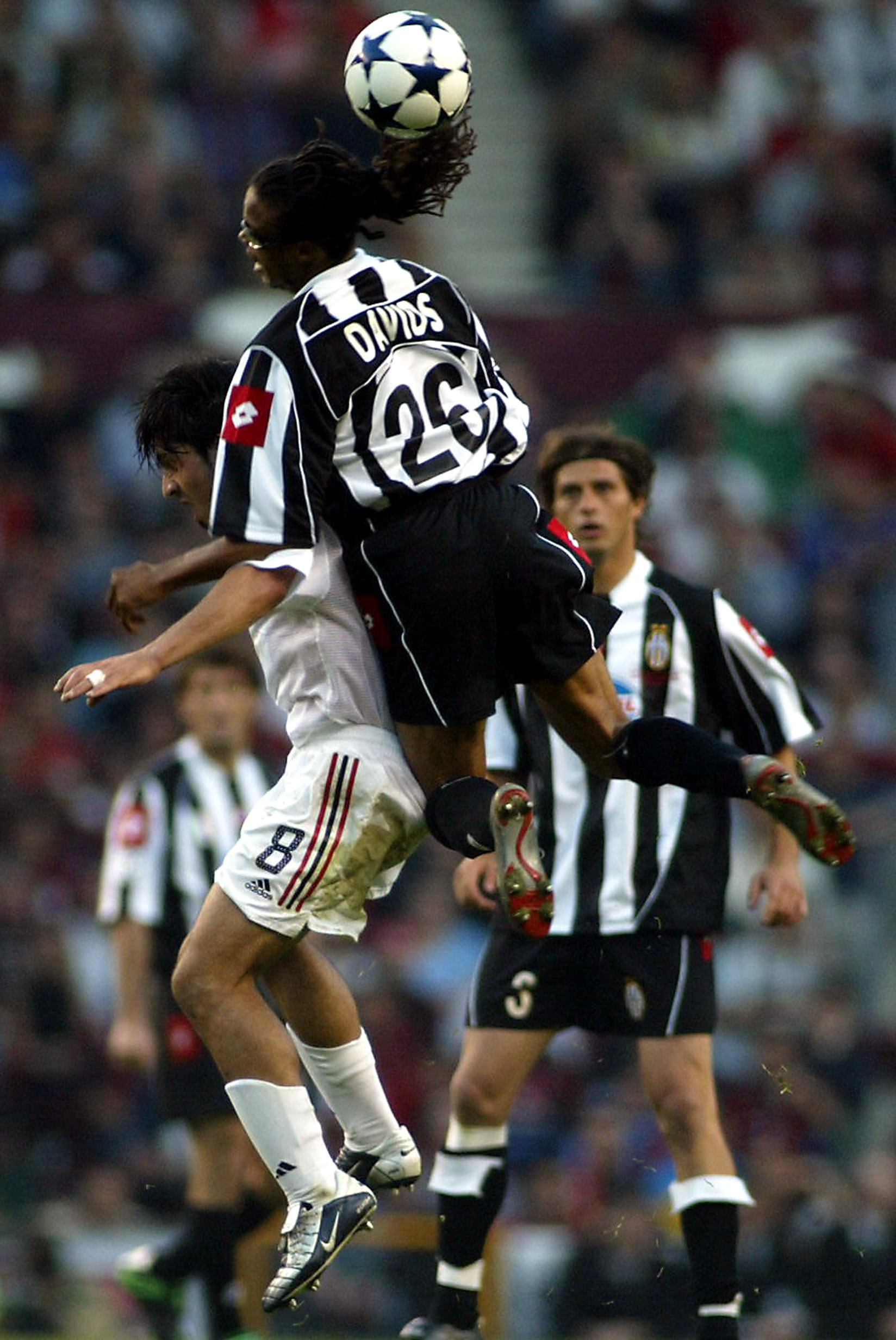 Dutch footballer Edgar Davids of Juventus F.C. (number 26 shirt) clashing with A.C. Milan's Gennaro Gattuso (number 8 shirt) while Alessio Tacchinardi (number 3) is watching the scene; final of the 2002–03 UEFA Champions League at Old Trafford in Manchester, England. Milan won 3–2 on penalties.